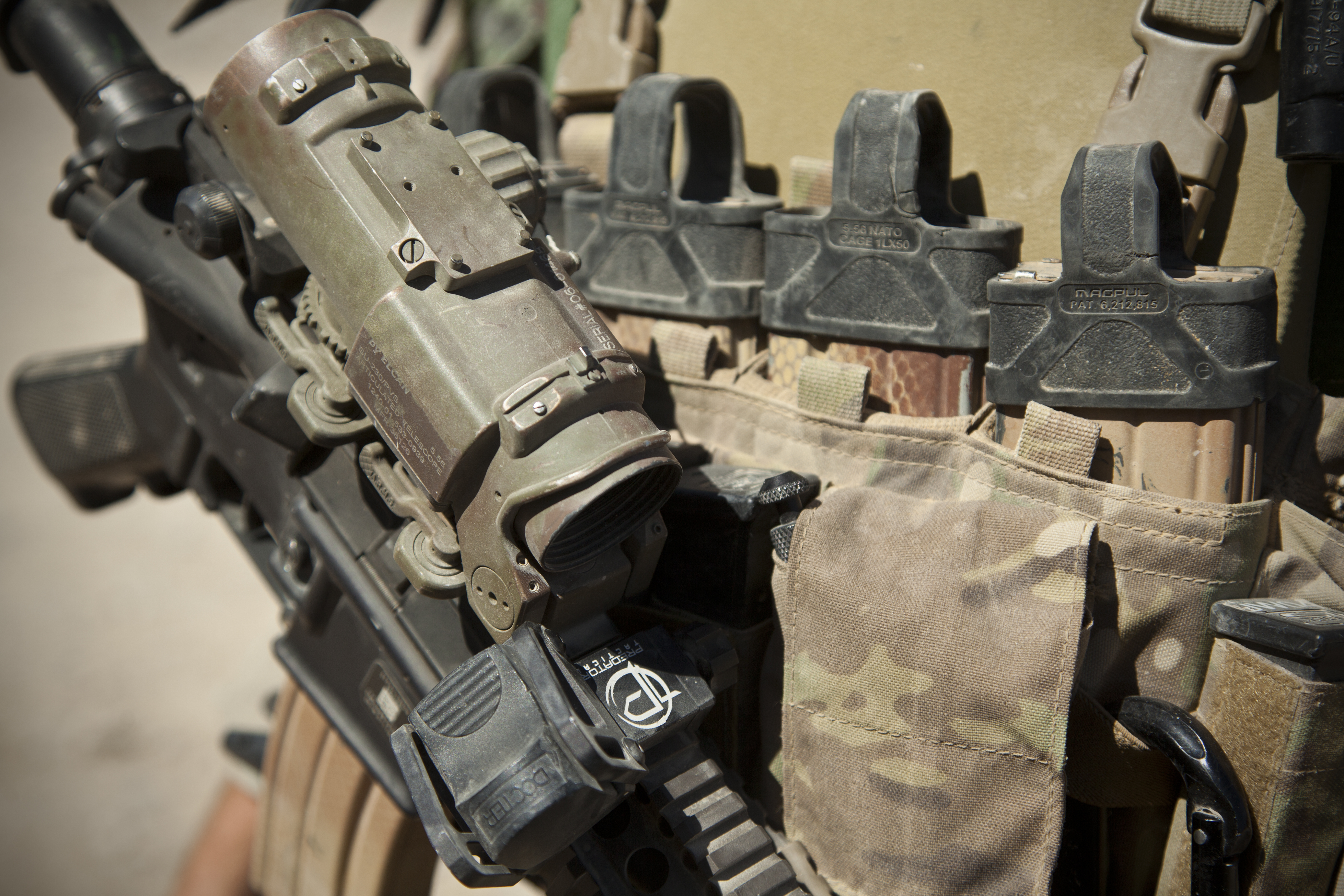 A U.S. Special Operations Marine assists with security as fellow Special Operations Marines and Afghan National Army special forces soldiers talk with potential Afghan Local Police candidates in Helmand province, Afghanistan, April 4, 2013. The Afghan Local Police was tasked with serving rural areas with limited Afghan National Security Forces presence.